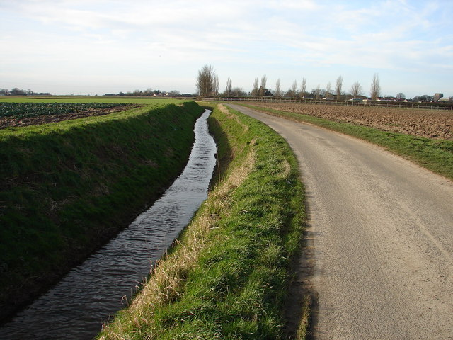 Minor Road and Ditch to East of Old Leake